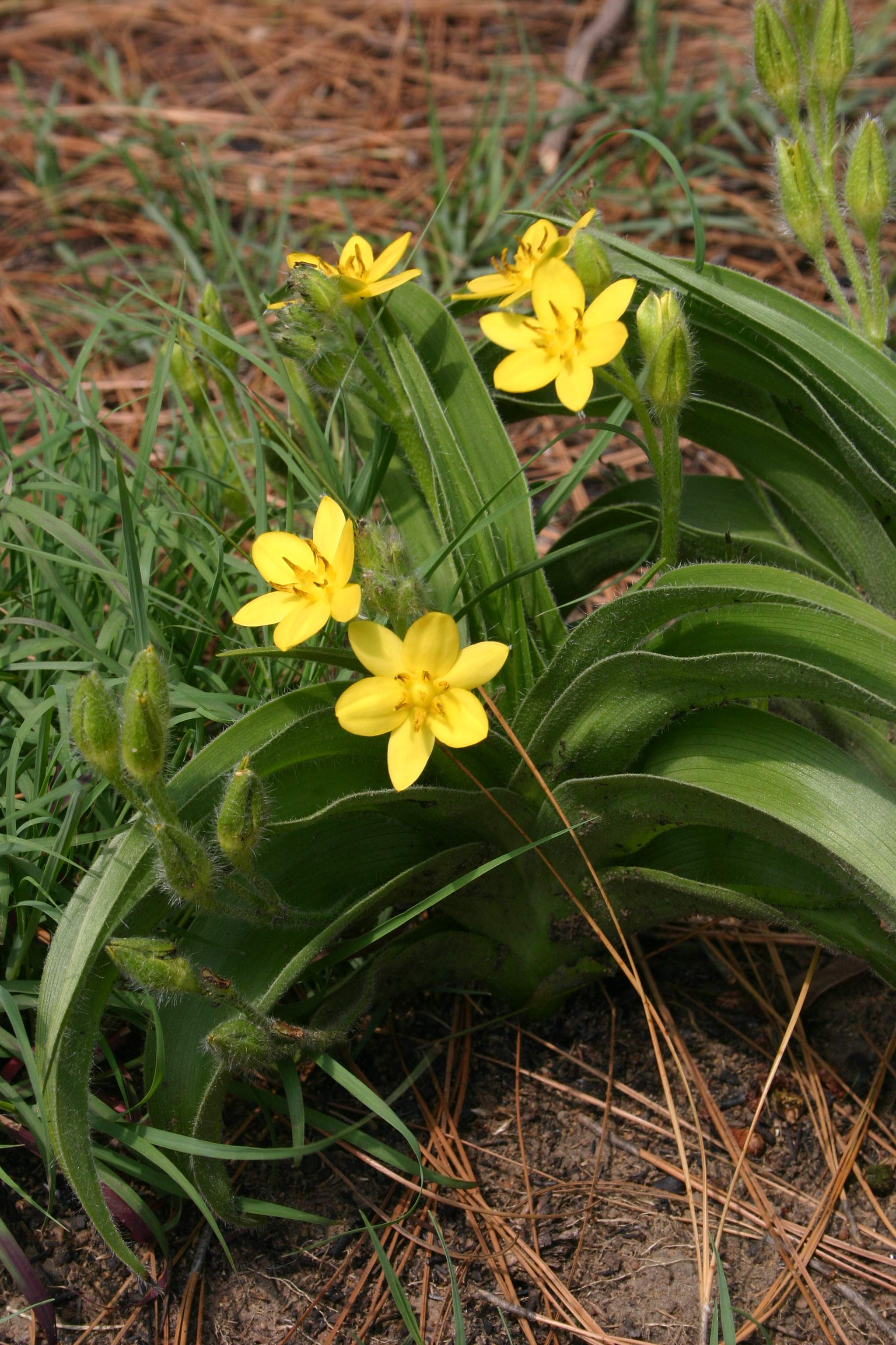 Hypoxis hemerocallidea flowering under pine trees, Honeydew, Johannesburg